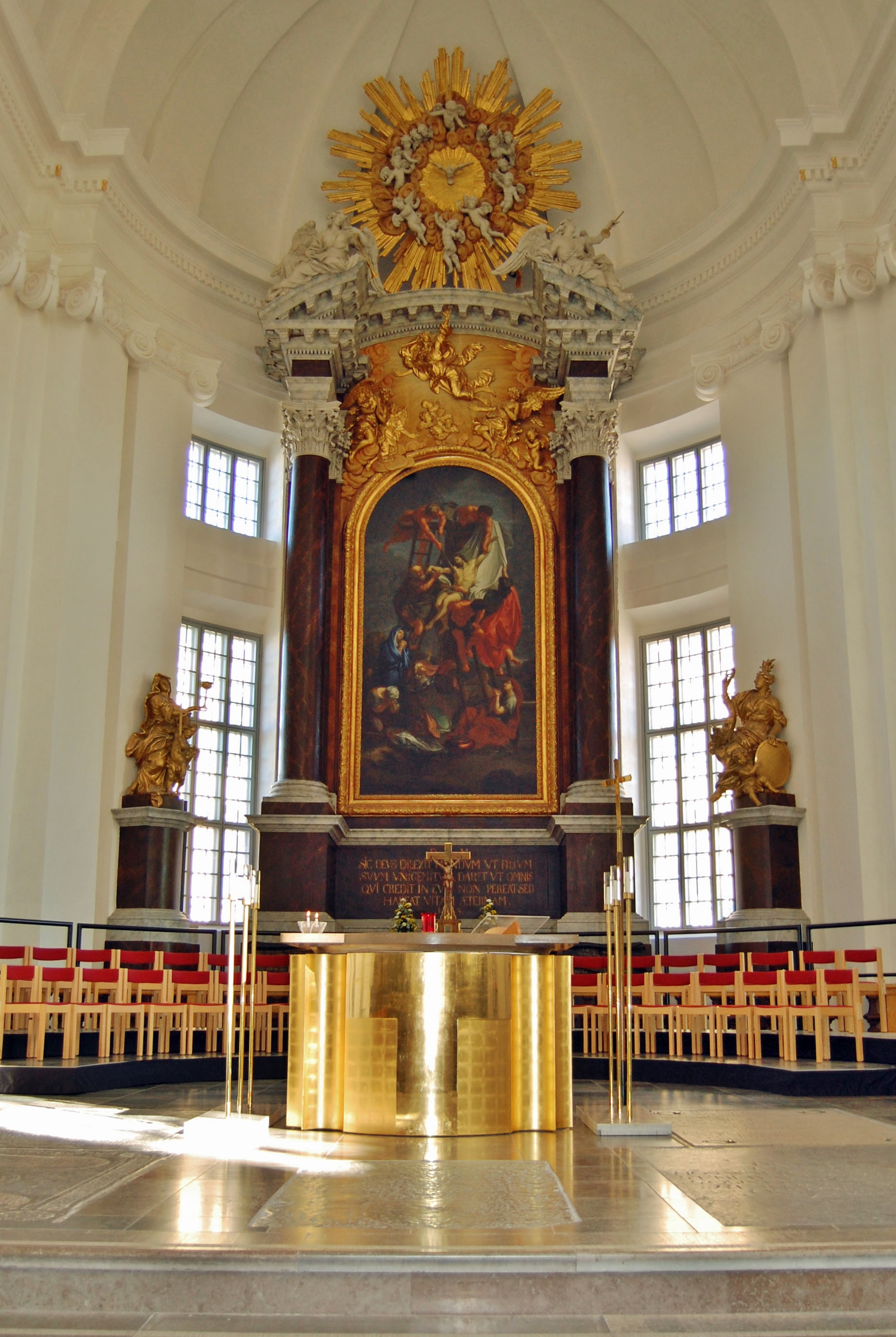 Kalmar Church